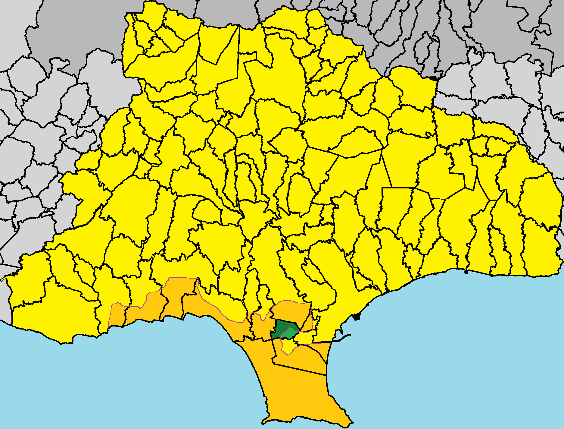 Trachoni in Limassol District.